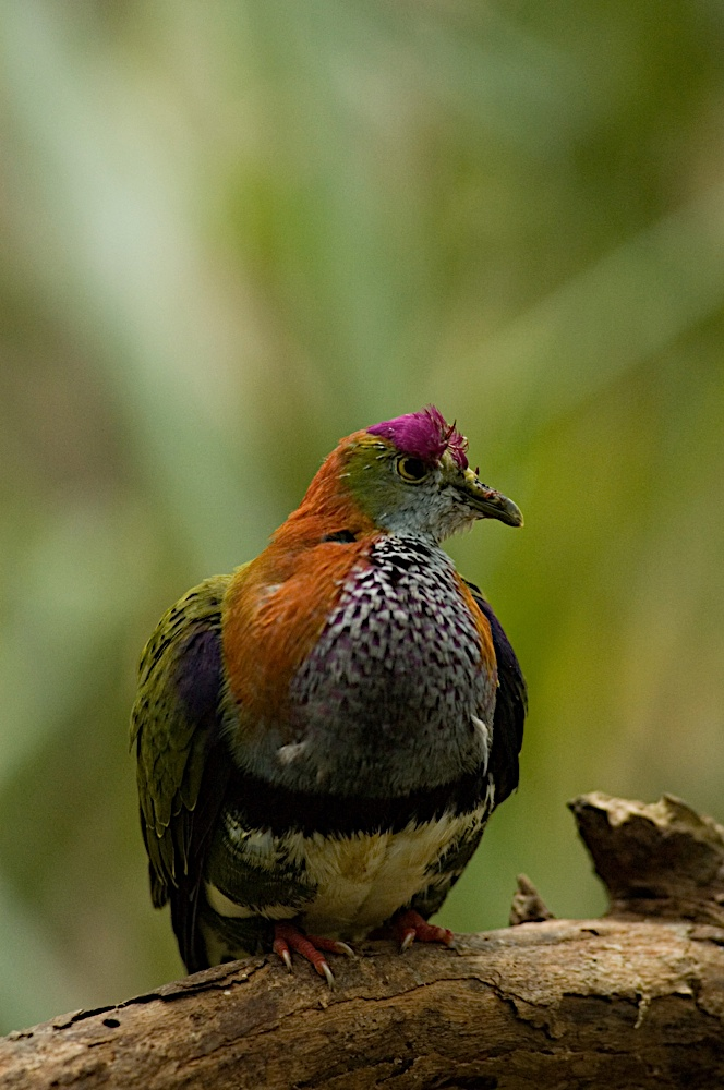 Superb Fruit-dove, Cairns.